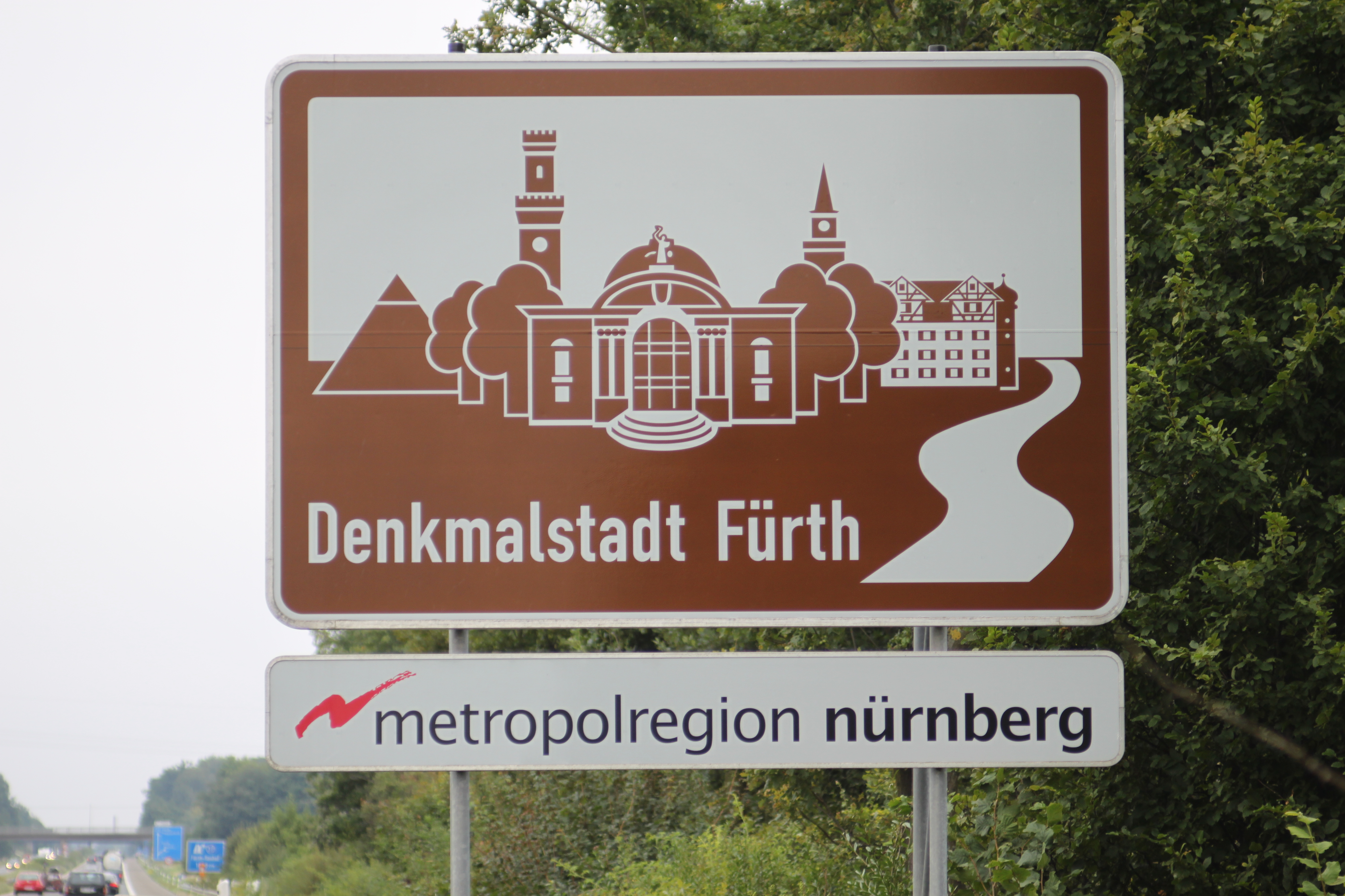 “City of monuments Fürth”, sign at Autobahn 73